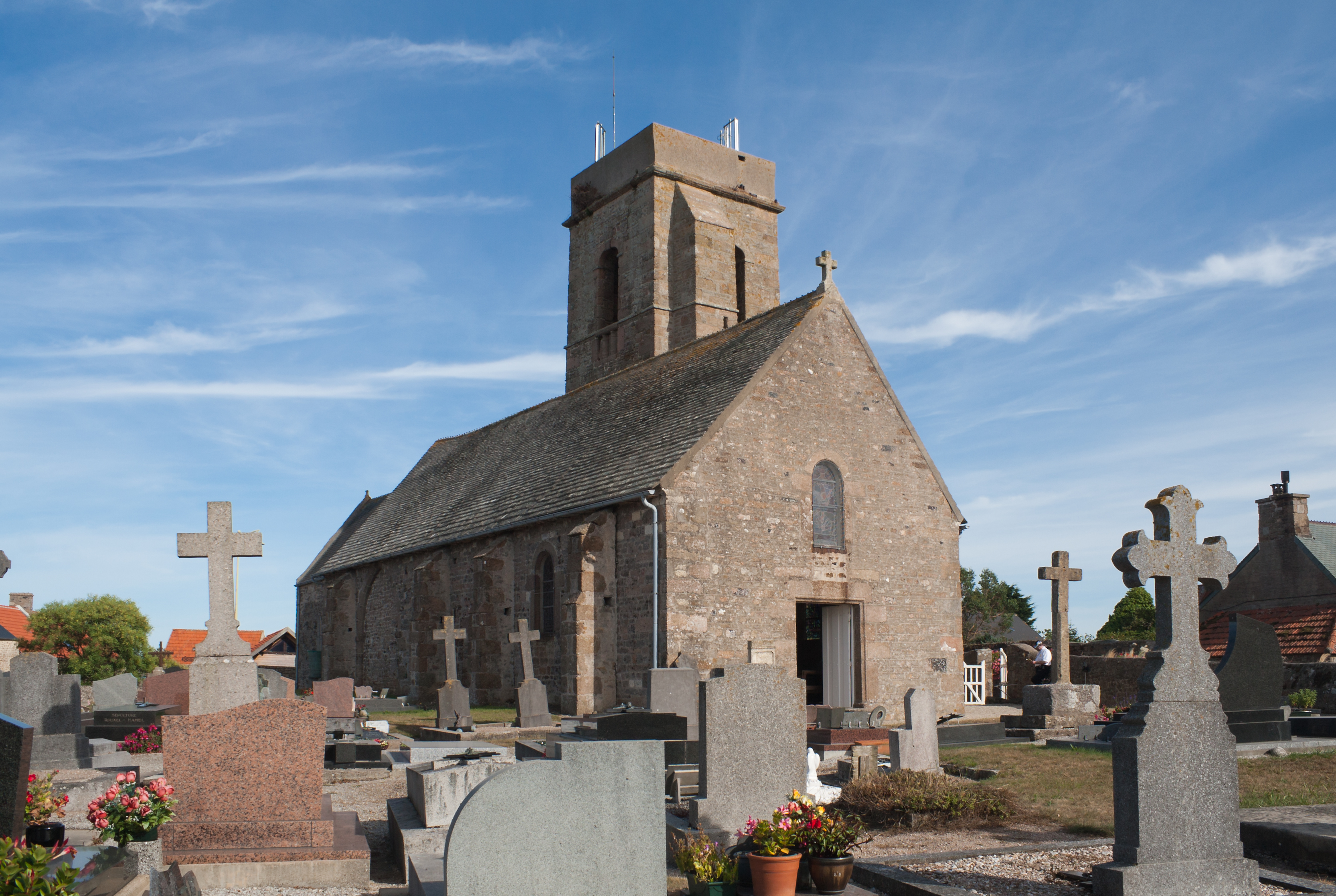 North-west view of the parish church.